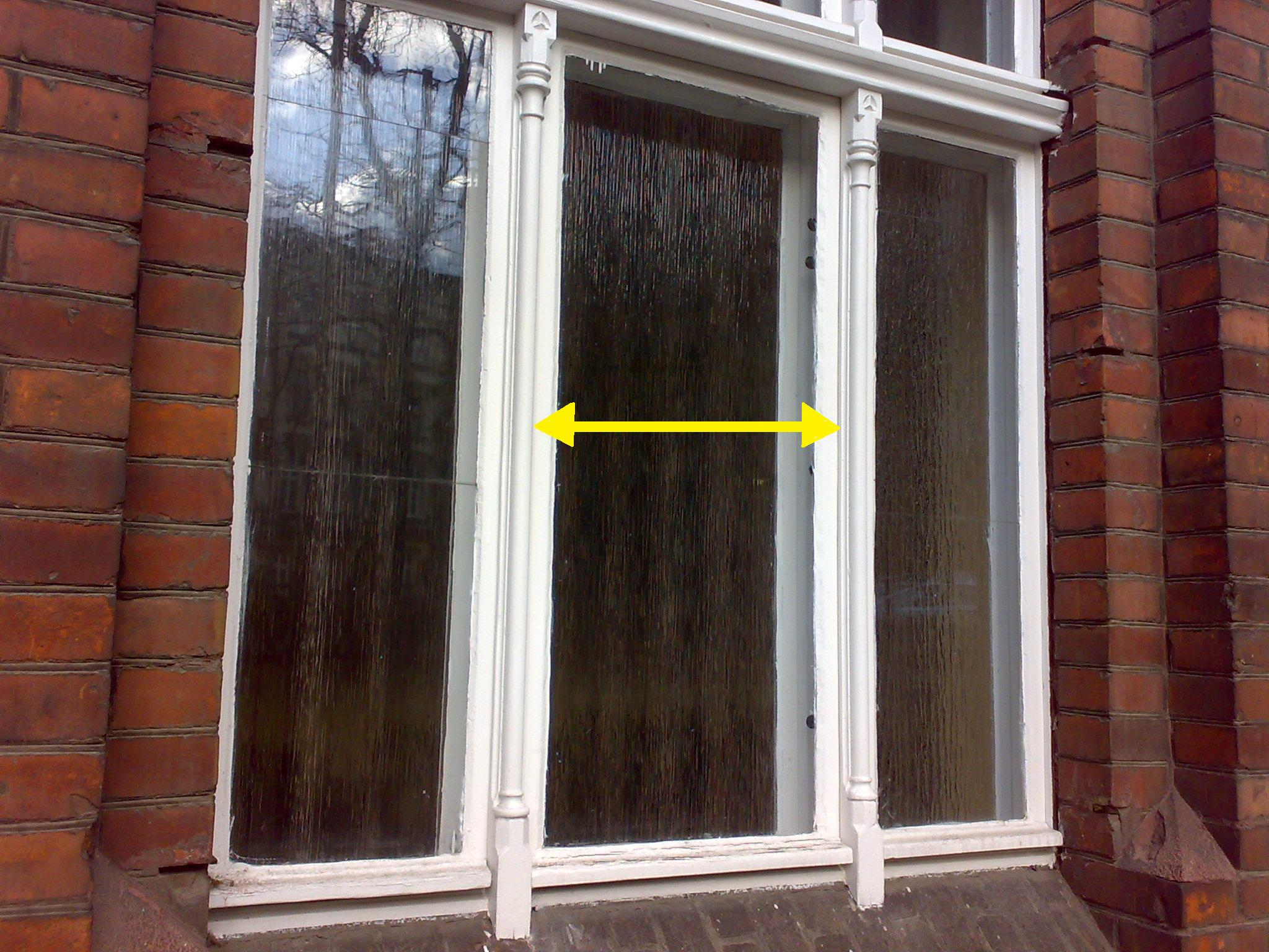 Window - Poznan, Fredry Street.